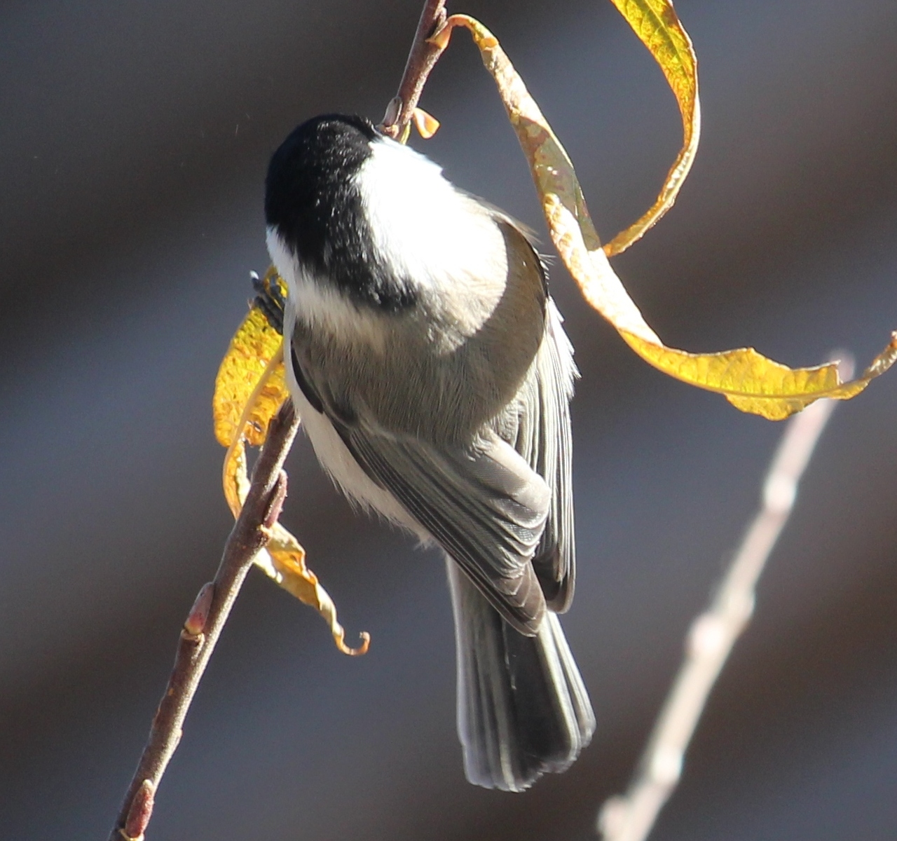 Willow tit, Poecile montanus restrictus (Hellmayr, 1900), in Mount Fujimidai, Kiso Mountains, Achi, Nagano prefecture, Japan.